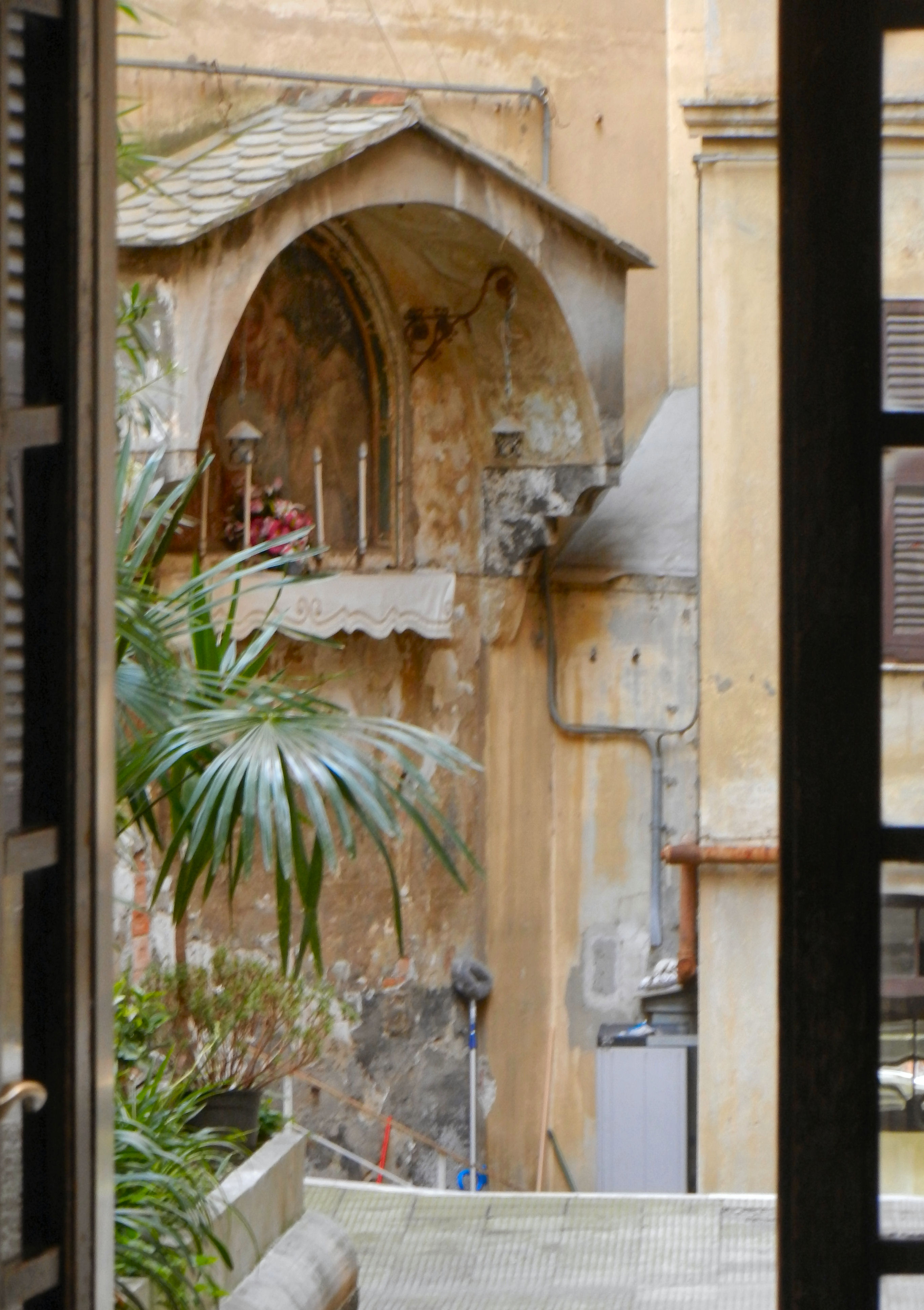 Genoa, Italy, quarter of Prè, the old door (now closed) of the church of San Nicolosio